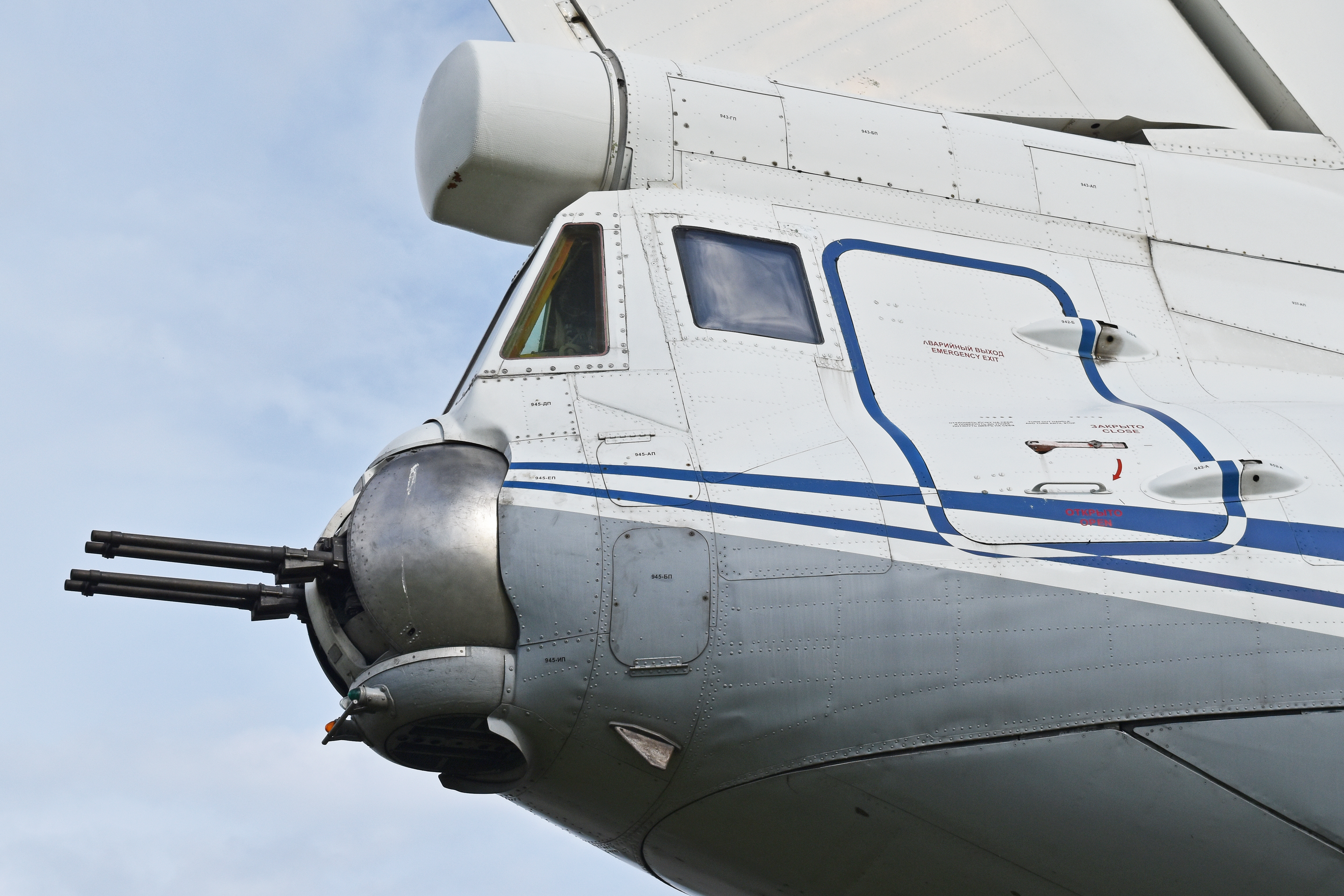 c/n 0073478349, l/n 59-08. Built 1987. Previously registered as CCCP-76743 and then RA-76743. NATO codename ‘Candid’. Reported to be operated by the 708th Red Banner of Kerch Military Transport Aviation Regimant (VTAP), Russian Air Force, based at Taganrog - Tsentralnyy. On static display at the Aviation cluster of the ARMY 2017 event. Kubinka Airbase, Moscow Oblast, Russia. 24th August 2017